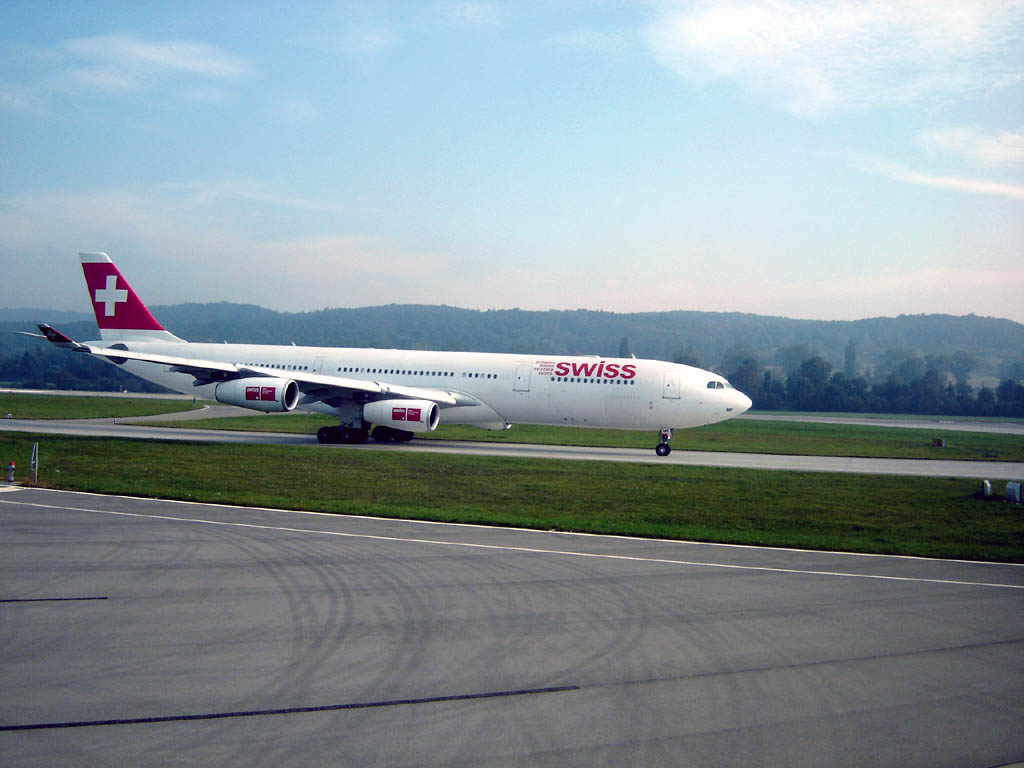 Zurich, Switzerland}